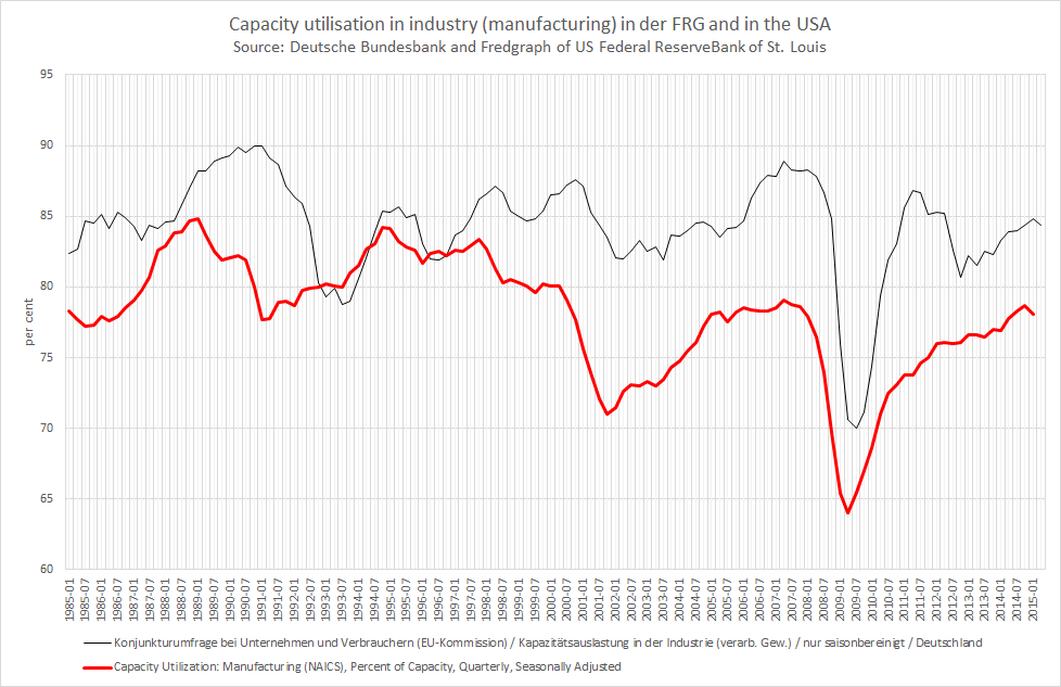 Capacity utilisation in the FRG and USA in manufacturing, data source Deutsche Bundesbank and Fredgraph St. Louis